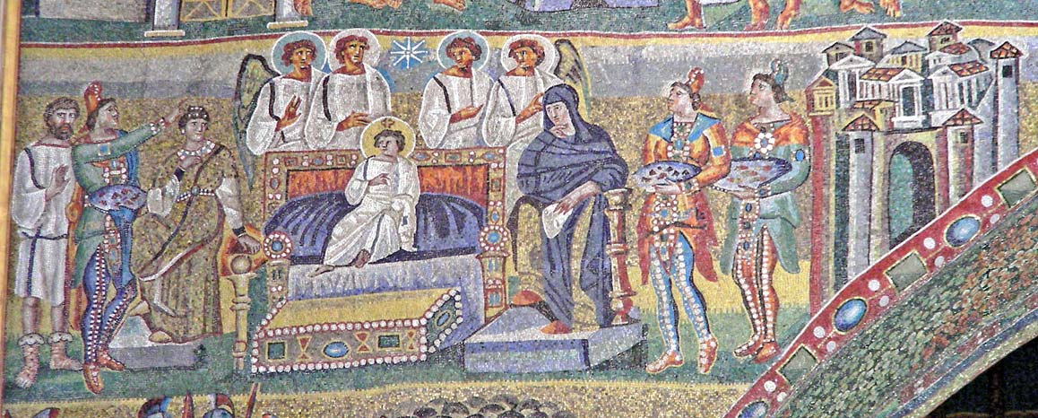 Triomphal Arch Mosaics in the Basilica of Santa Maria Maggiore in Rome, left side, second register from up